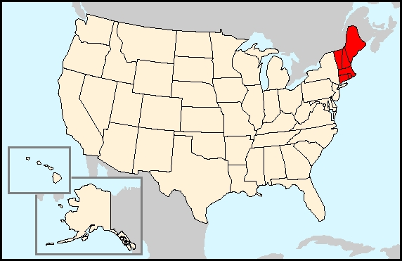 Map showing New England